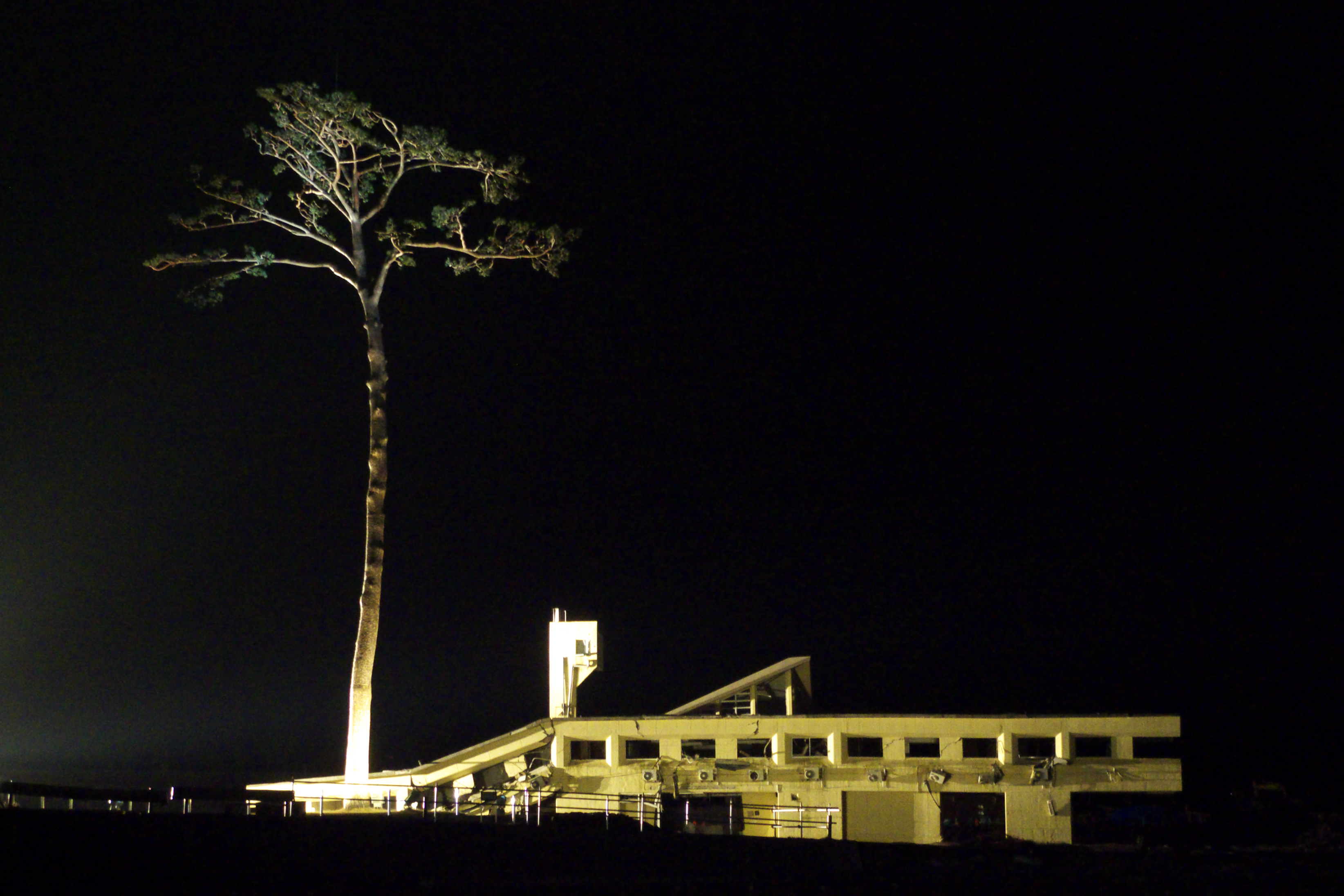 Miracle Pine Tree (Kiseki no Ippon-matsu) at night